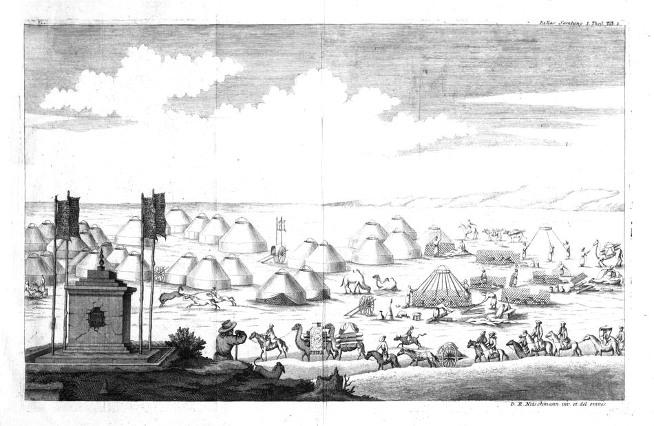 Encampment of the Derbet Mongols near the Volga in the eighteenth century. The memorial in front was built to honor a deceased lama.